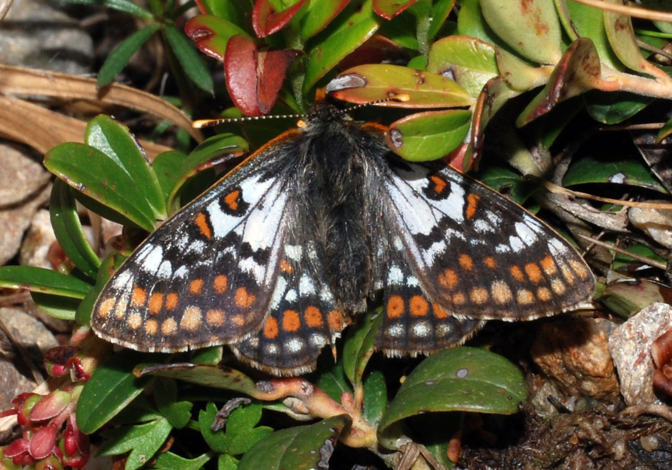 Euphydryas cynthia, Near Erlacher-Bock Scharte, Nockberge, Carinthia, Austria, approx 1900m